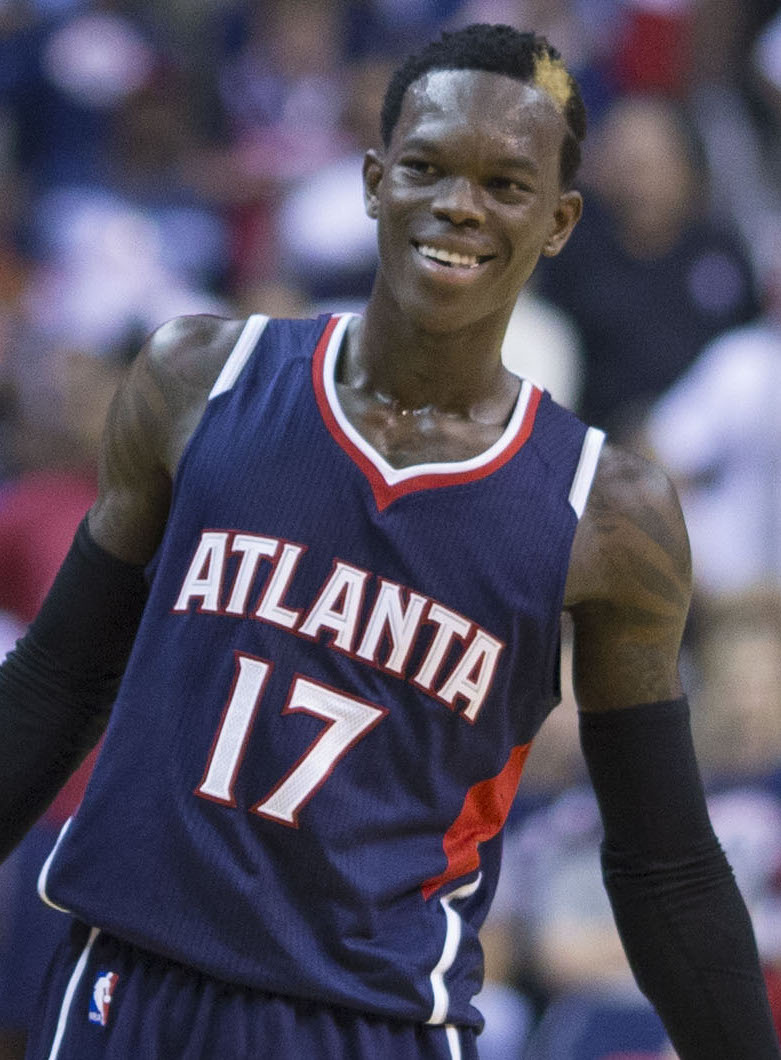 Hawks at Wizards 5/9/15